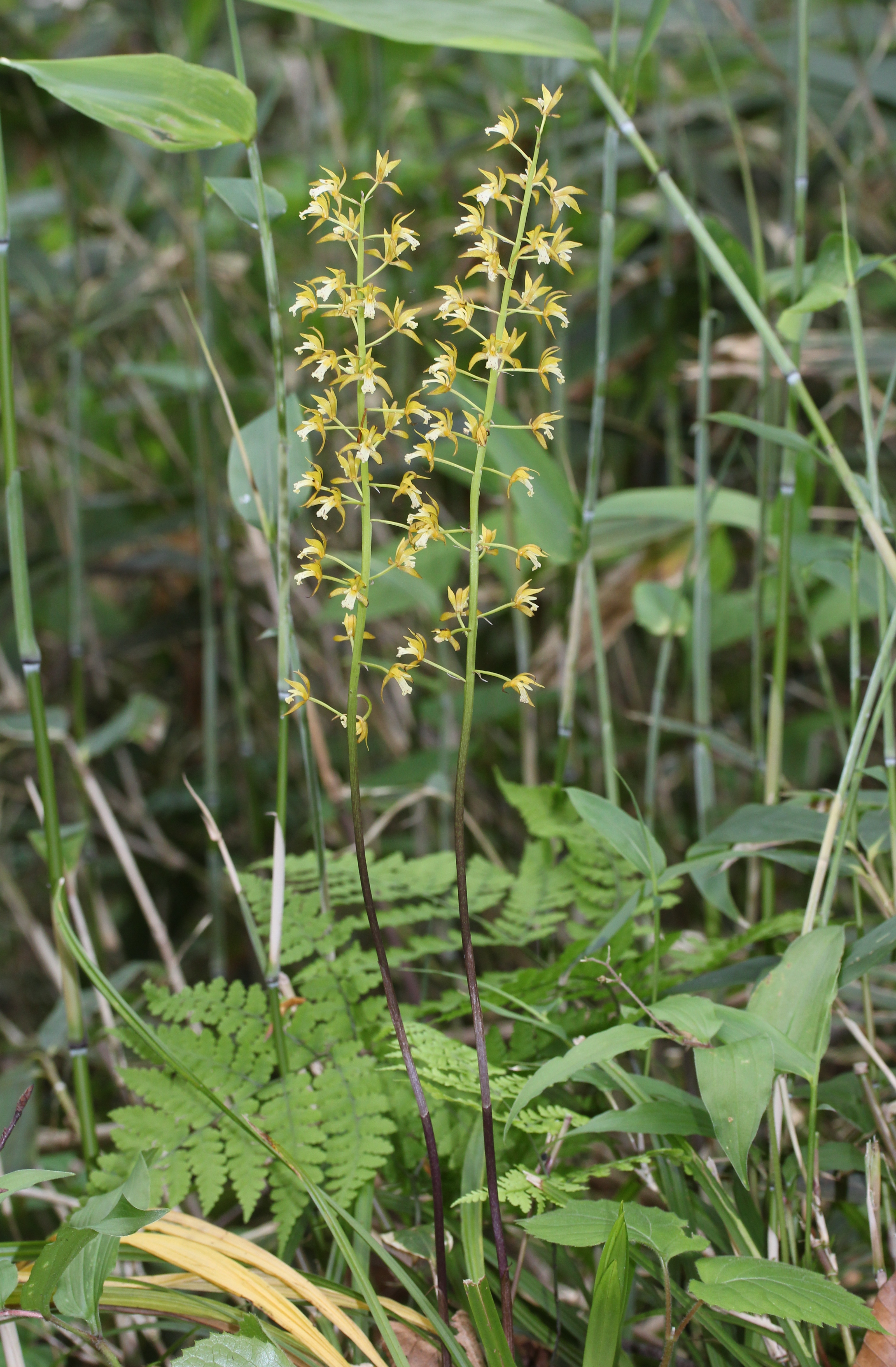 Oreorchis patens, in Mount Yake, Takayama, Gifu prefrcture, Japan.